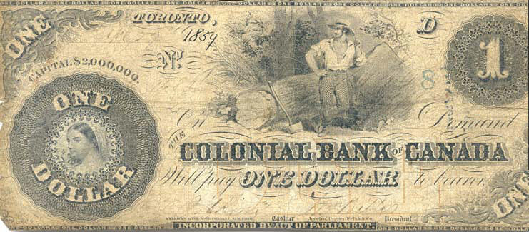 One dollar banknote issued by the Colonial Bank of Canada, Toronto.